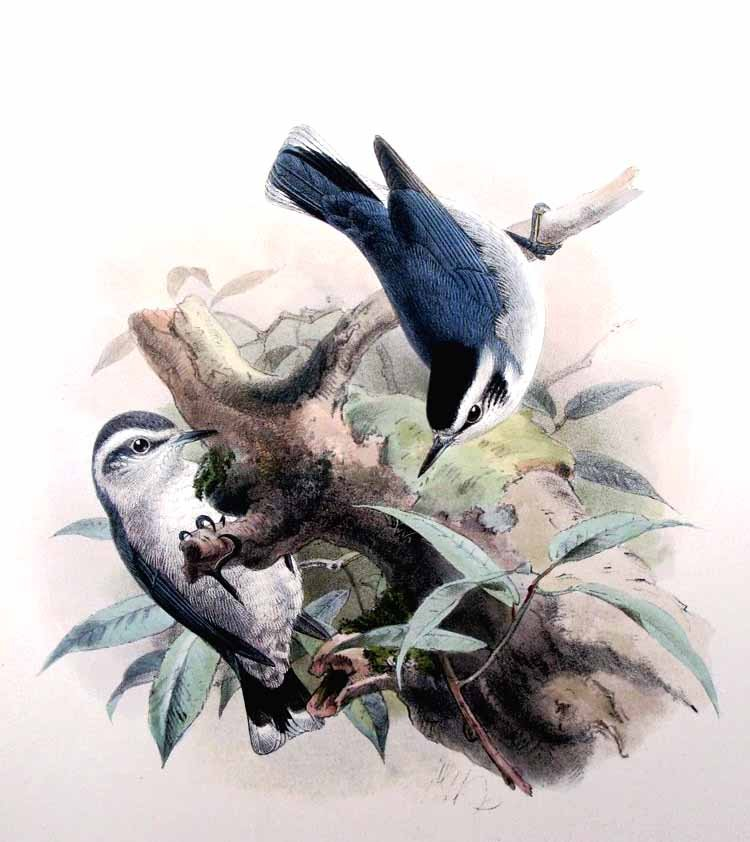 Sitta whiteheadi (Corsican Nuthatch)